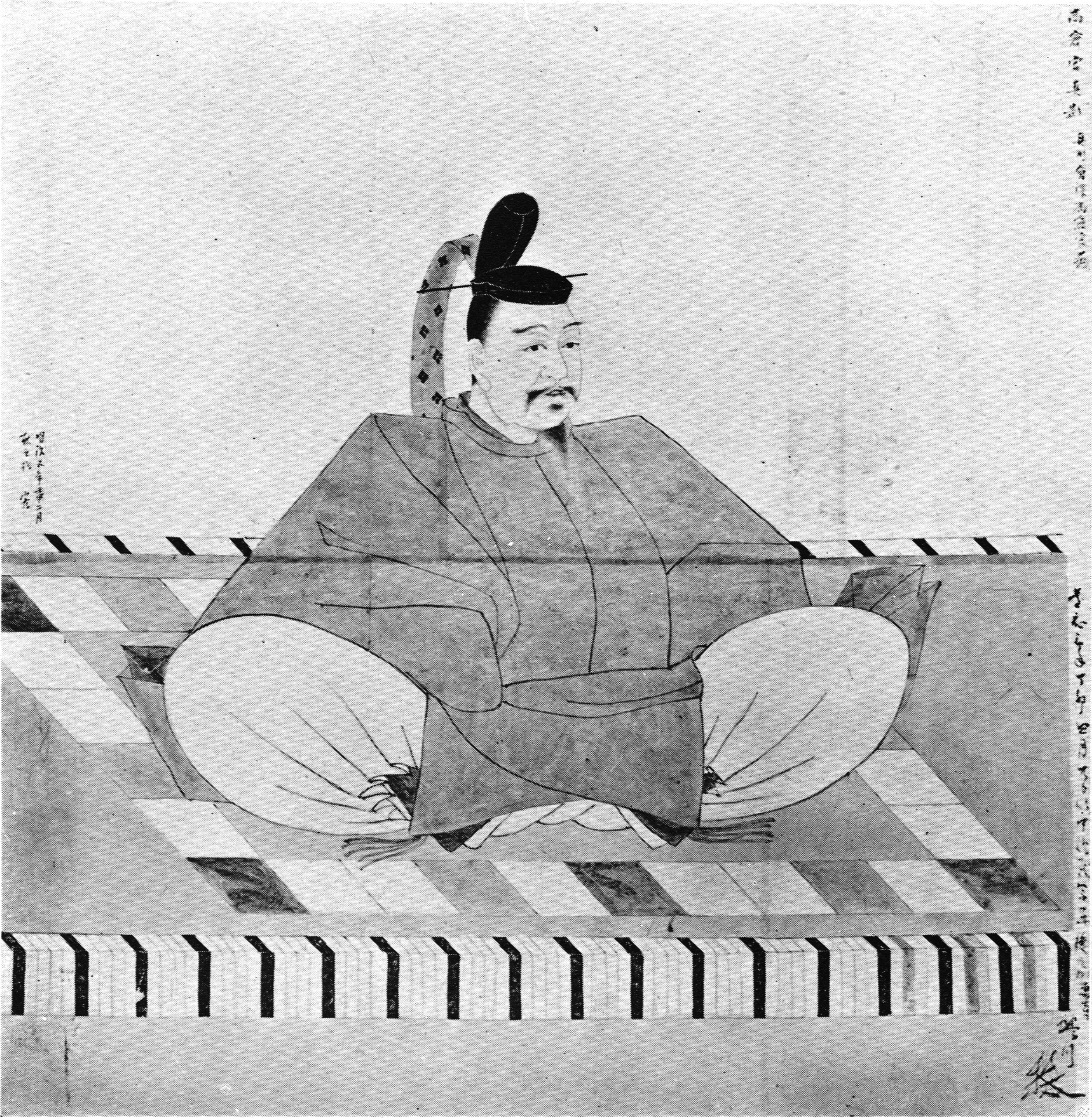 Portrait of Prince_Mochihito